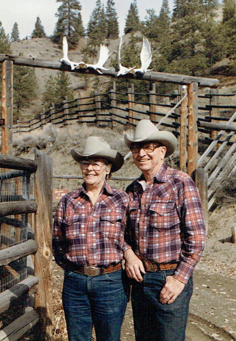 Al and Ann Stohlman on their farm in Cache Creek, Ontario